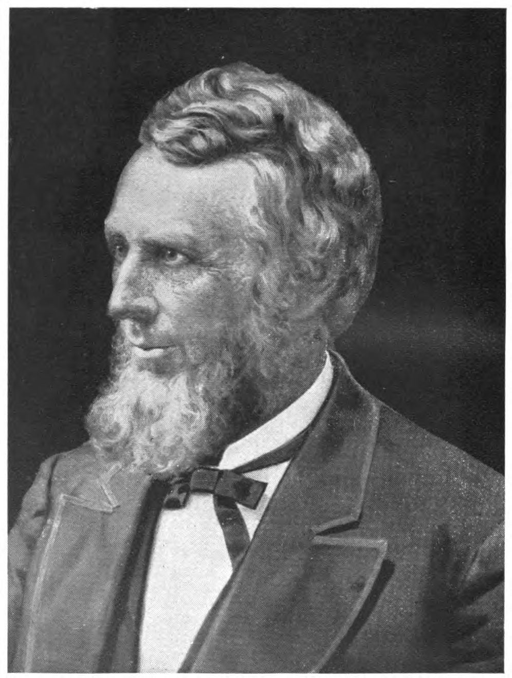 Norton Strange Townshend, member of the United States House of Representatives from Ohio.